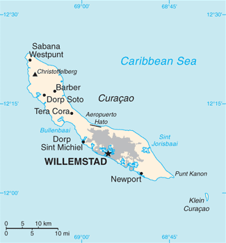 Map of Curaçao from the 2010-10-22 revision of the World Factbook